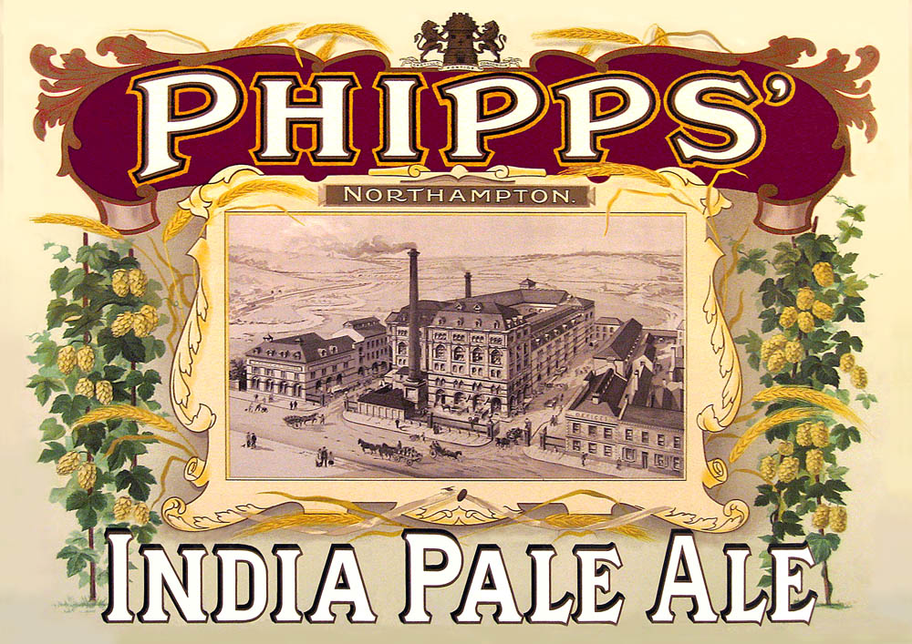 19th Cent poster for Phipps, Northampton, India Pale Ale